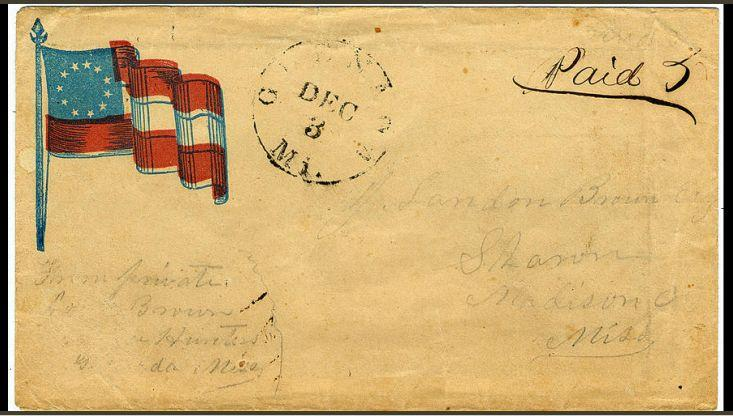 Confederate patriotic cover w/ manuscript paid marking, 1861